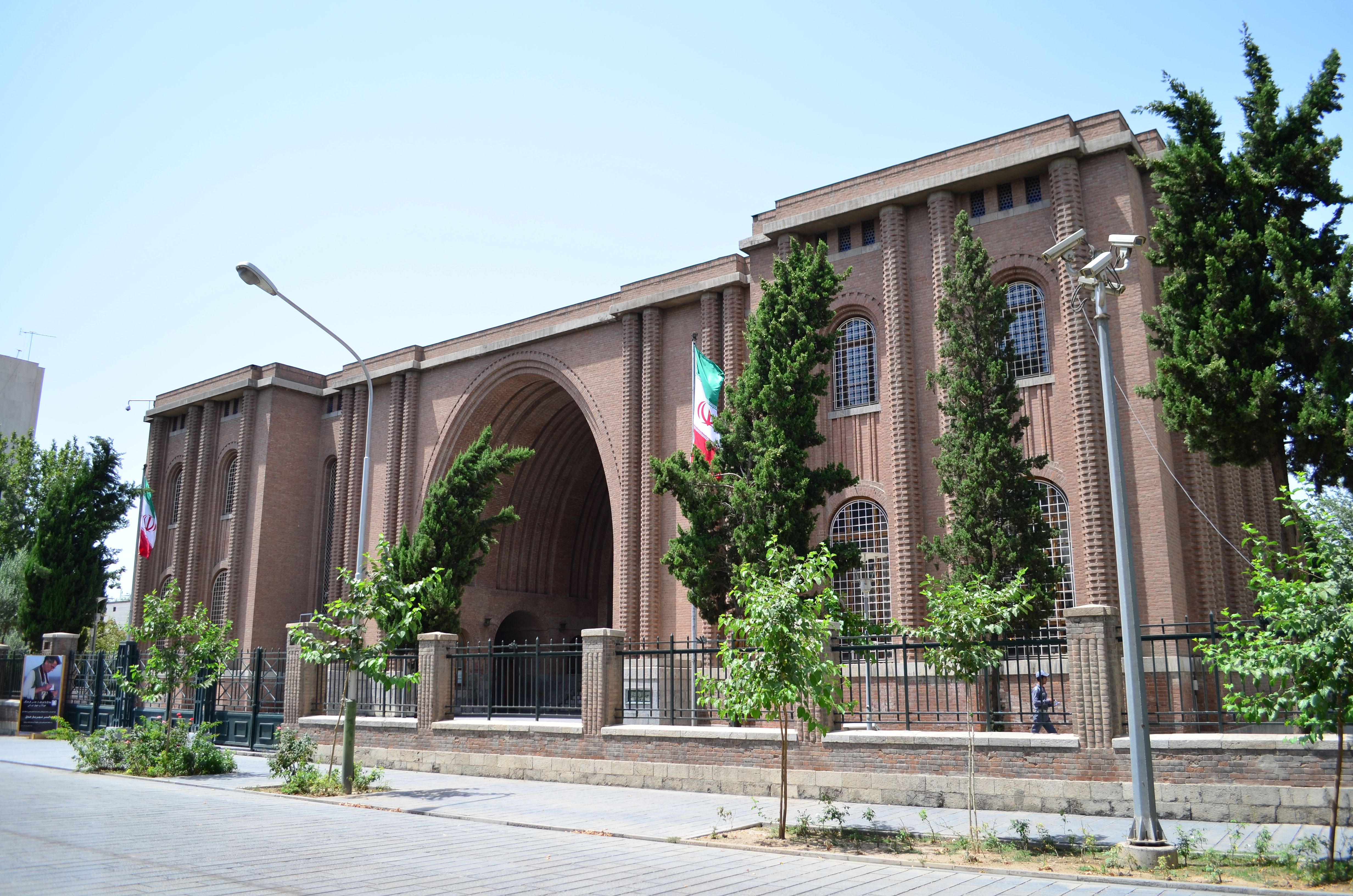 National Museum of Iran National Museum of Iran Native name